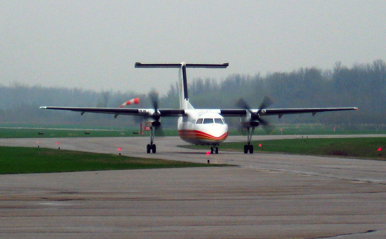 Air Creebec Dash-8-102 C-FCSK taxiing at Stratford Municipal Airport during the repatriation of Kashechewan flood evacuees on May 2, 2008.